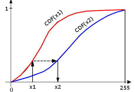 Histogram matching